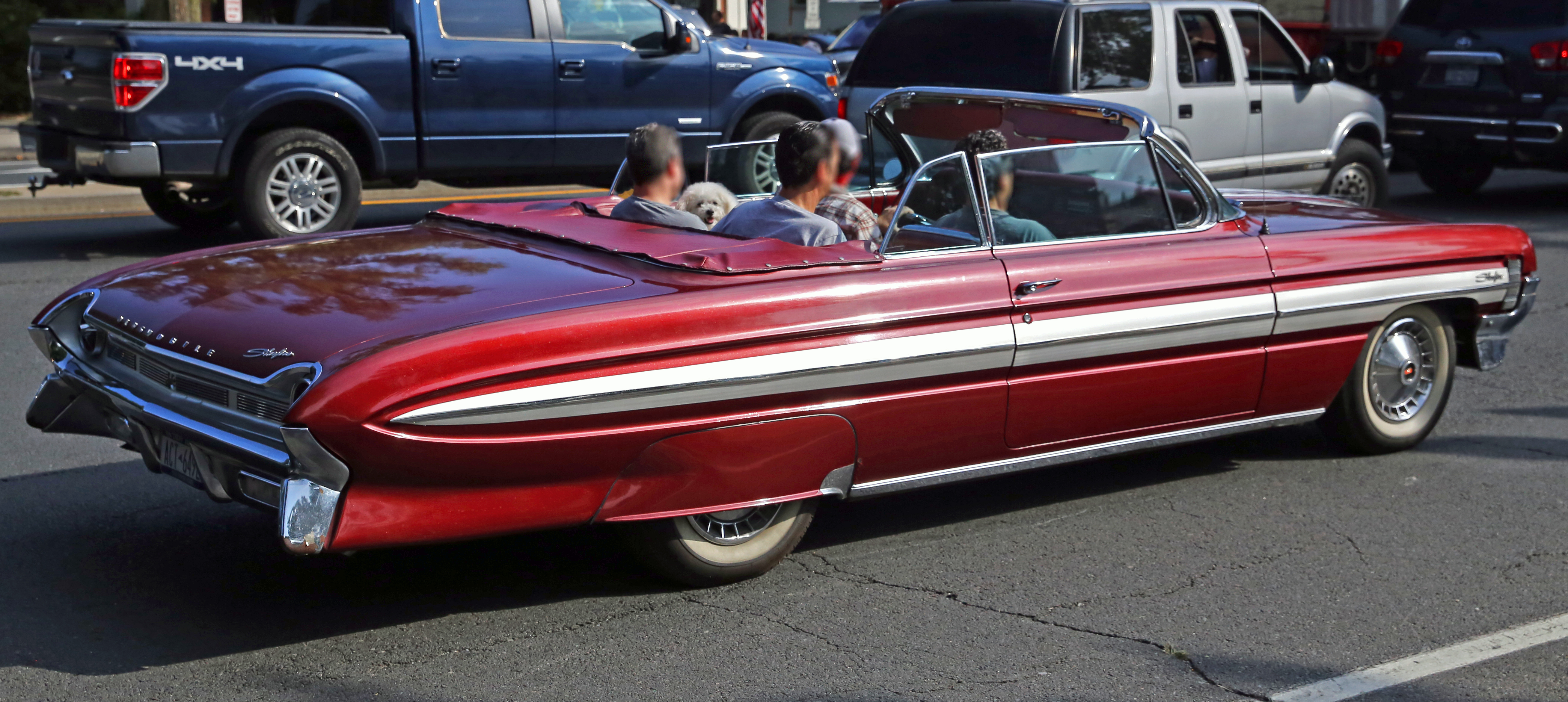 A 1961 Oldsmobile Starfire convertible in East Hampton, NY.